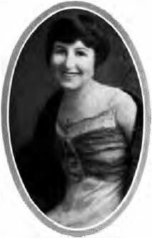 Miss Geneve Shaffer, Who's who among the women of California, 1922